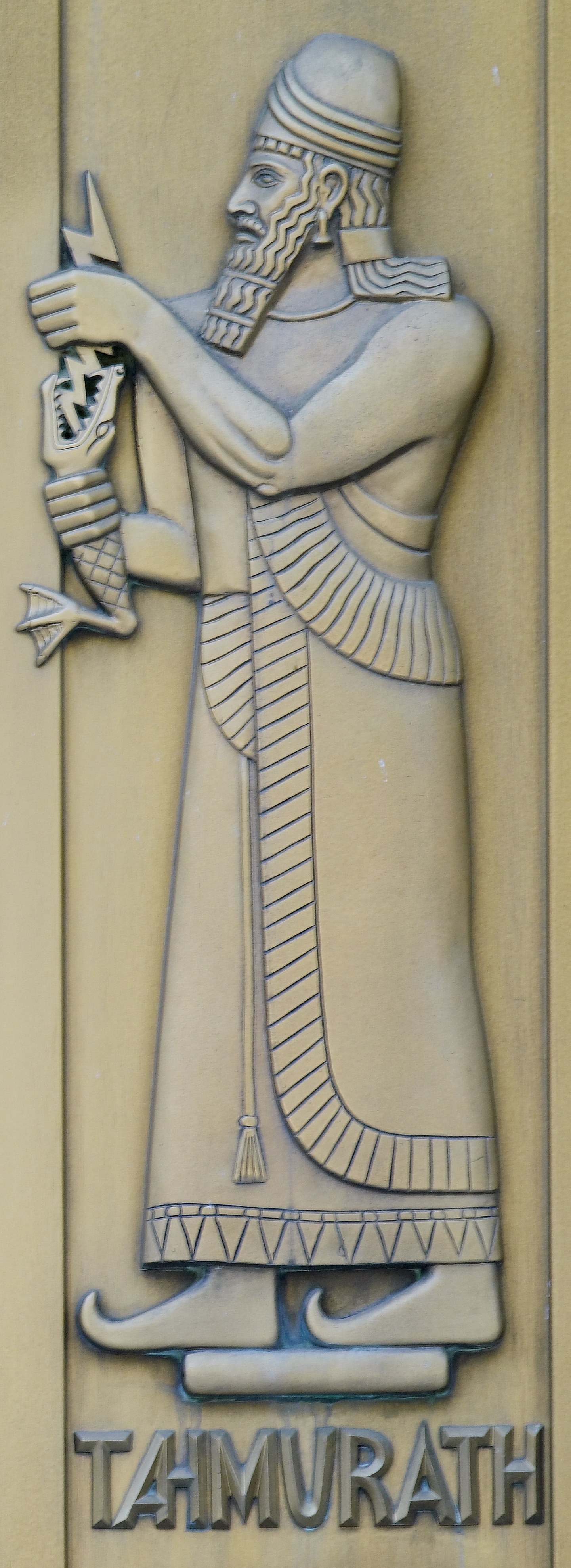 Tahmurath, sculpted bronze figure by Lee Lawrie. Door detail, east entrance, Library of Congress John Adams Building, Washington, D.C.